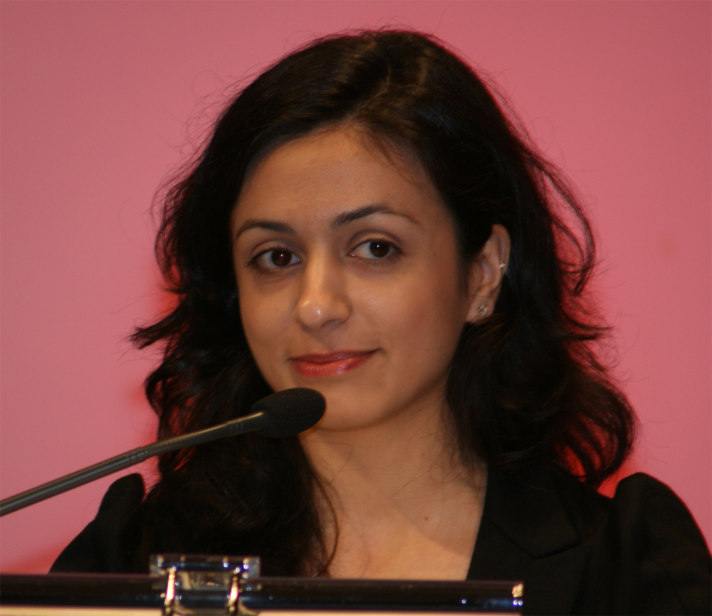 Hadia Tajik